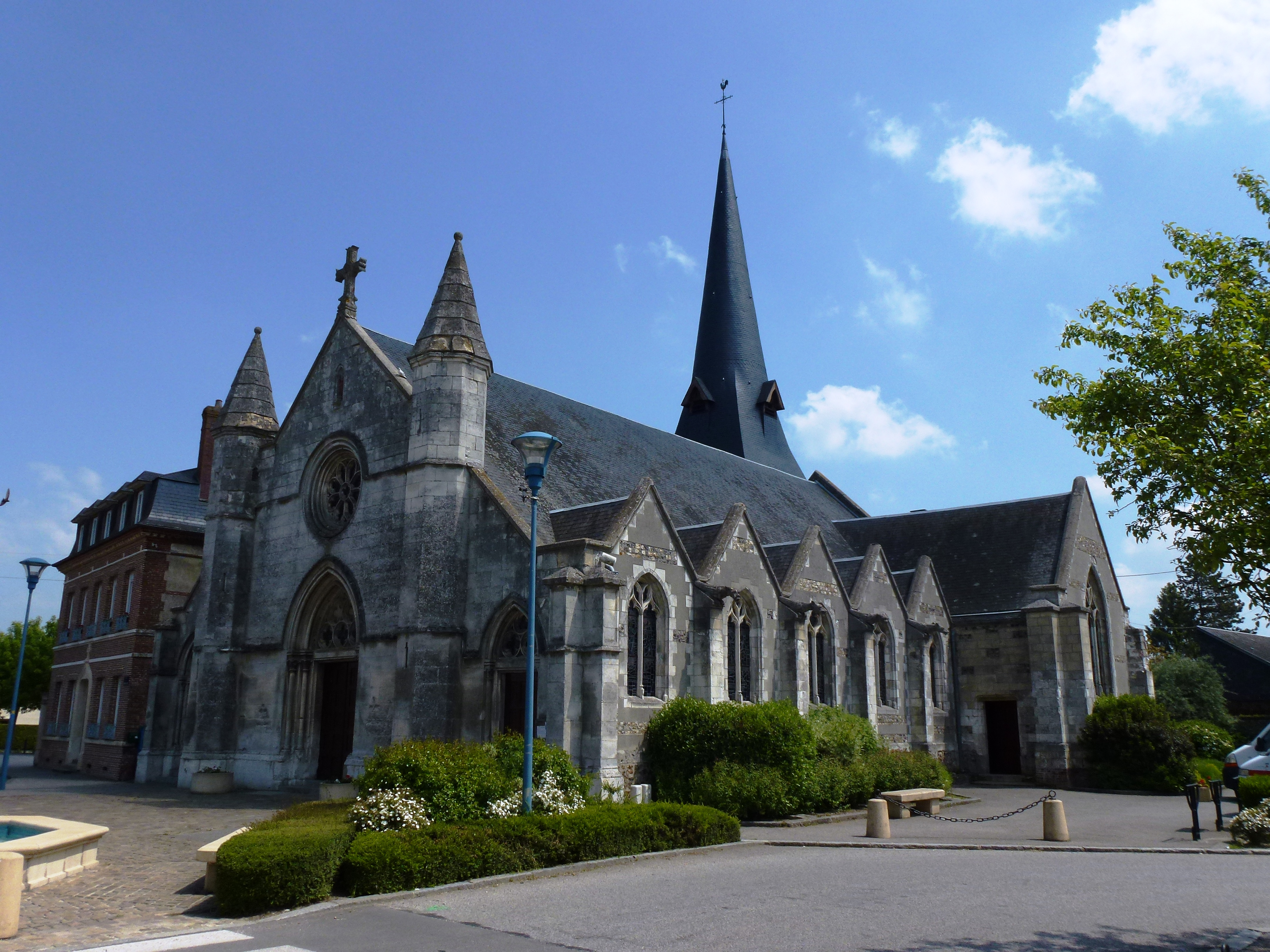 Lieurey (Eure, Fr) église